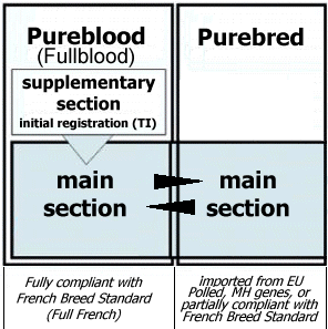 Schematic of French Limousin Herd Book for period July 2007 to June 2008